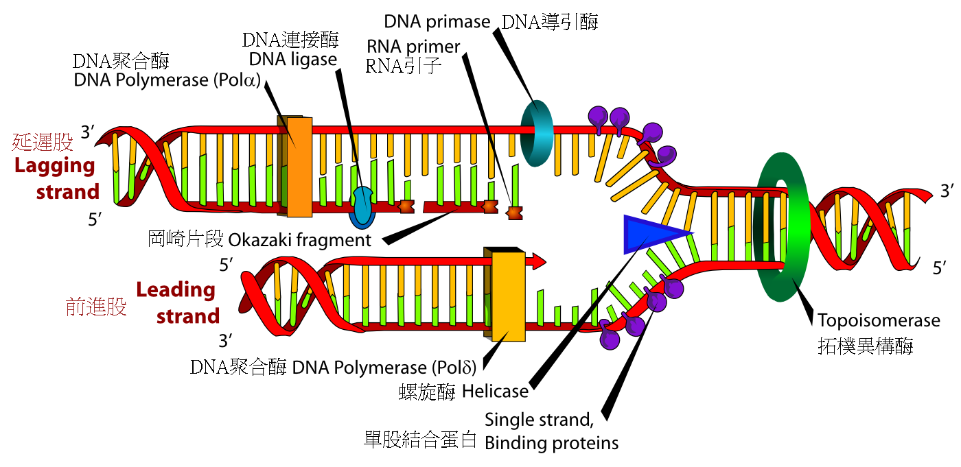 Chinese version of Image:DNA replication.svg.